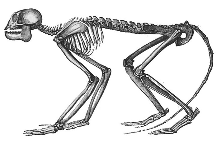 Miocene monkey; Siwalk Hills, India. Mesopethicus pentelici